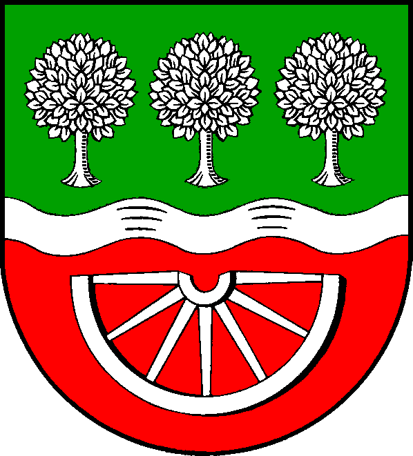 Coat of arms of the municipality Groß Buchwald in Schleswig-Holstein, Germany.